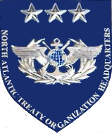 The coat of arms of the NATO Headquarters